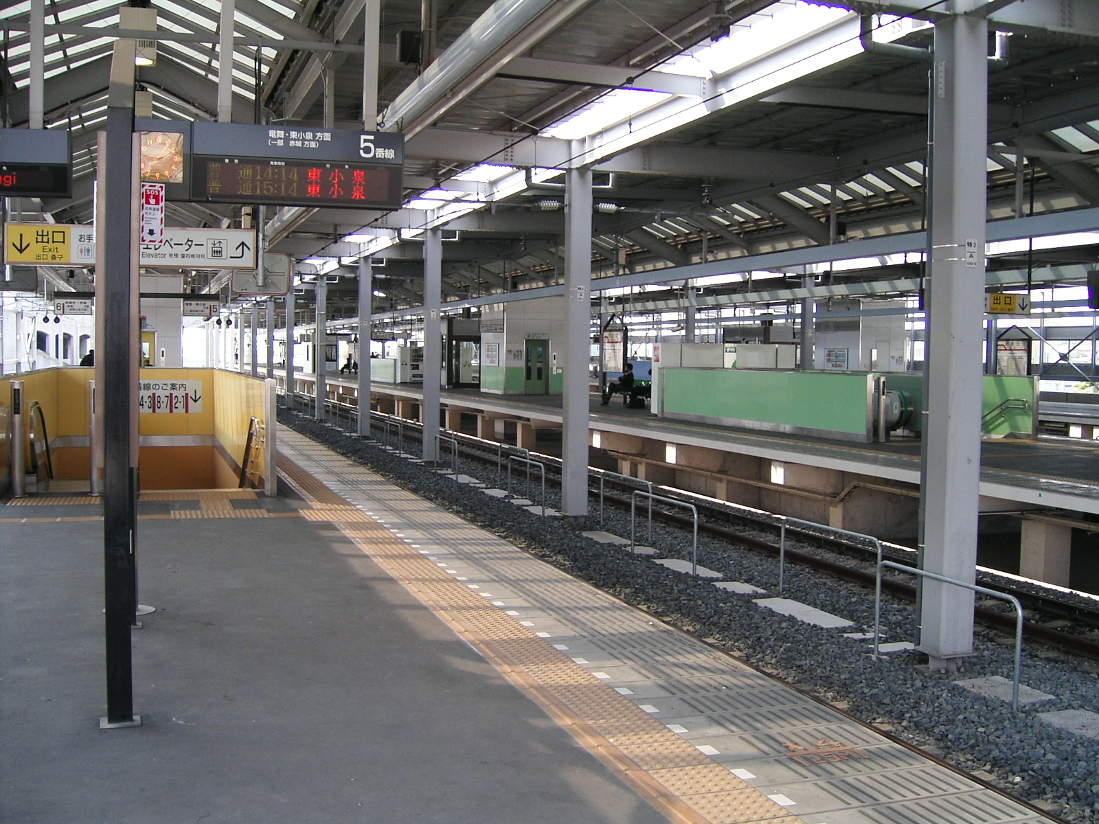 Ota station in Ota city, Gunma pref, Japan 太田駅 プラットフォーム（東武伊勢崎線）